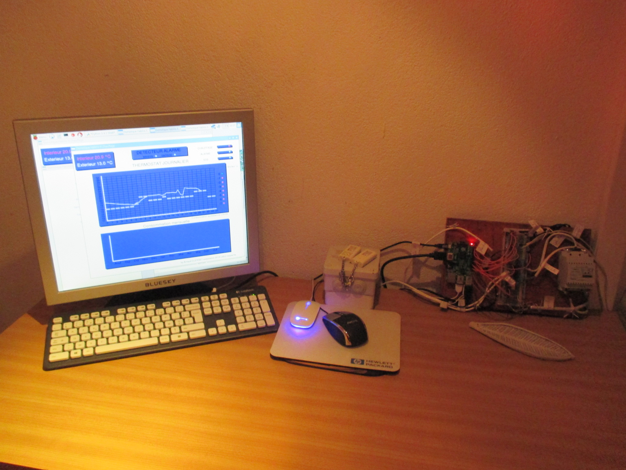 Domotique Habilis 002